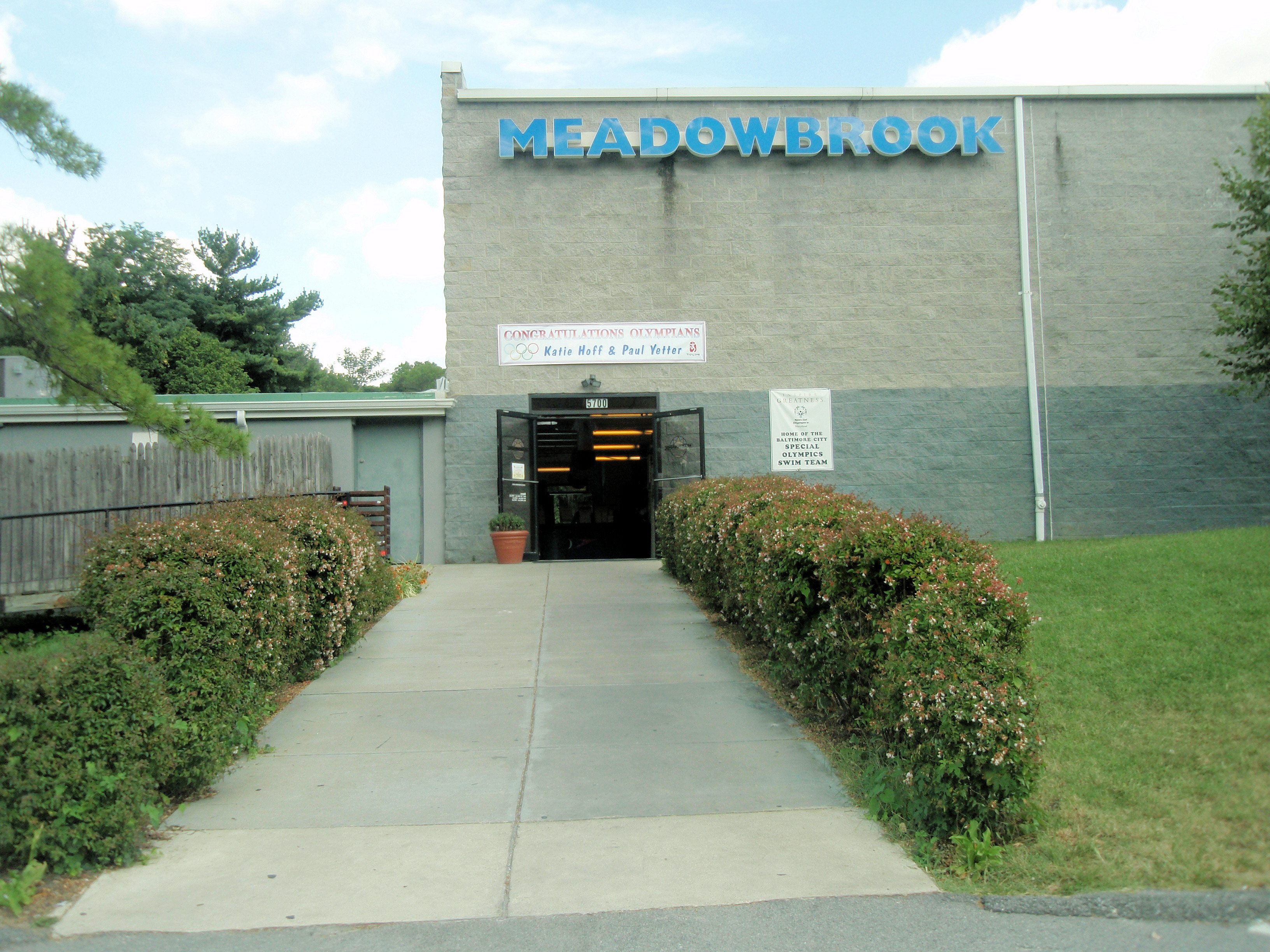 Entrance to the Meadowbrook Aquatic Center in Baltimore, which is the primary facility used by the North Baltimore Aquatic Club.